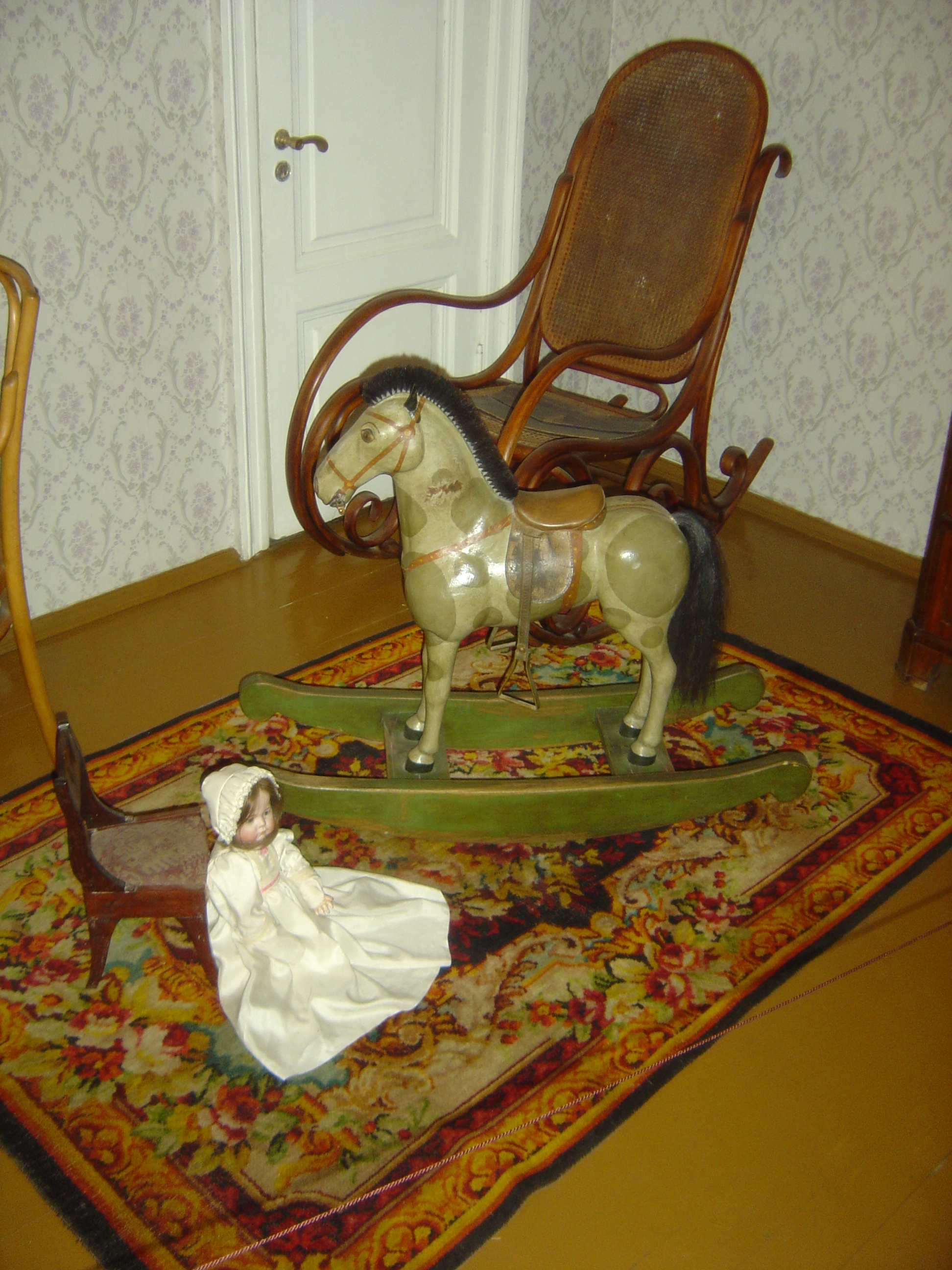 Dostoevsky Museum,the nursery